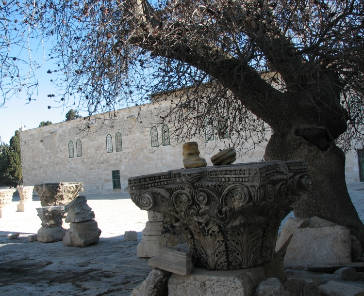 Courtyard of Islamic Museum on the Temple Mount, Jerusalem.